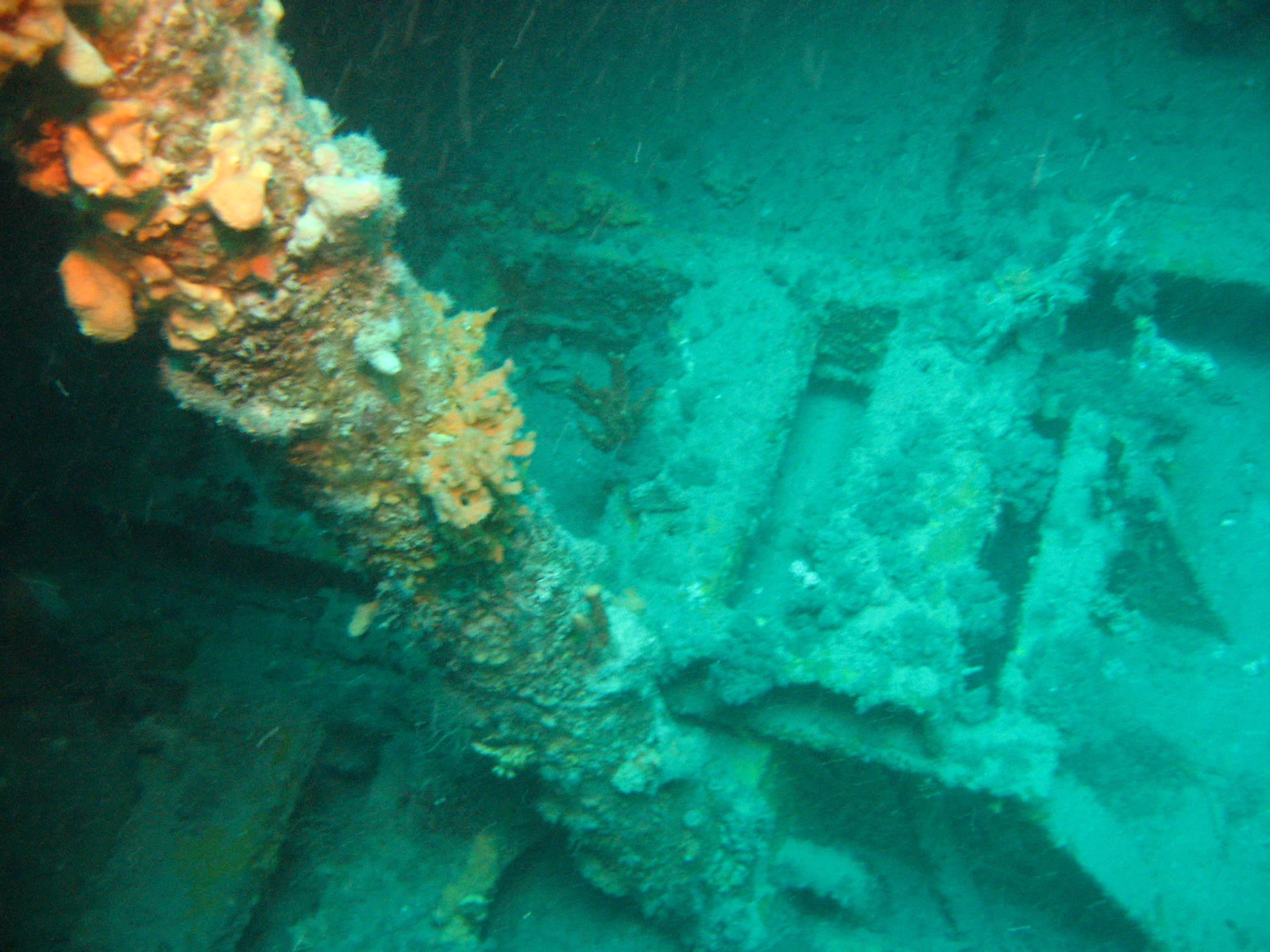 The HMAS Hobart was an Australian guided missile destroyer. In June 2000 the decommissioned vessel was gifted to South Australia to become an artificial reef and world class dive site. On Tuesday 5 November 2002 the Hobart was scuttled in Yankalilla Bay, South Australia. Sitting in 30m of water, the wreck has become home to numerous schools of fish including Leather Jackets, Angel Fish, even Snapper and is now thoroughly covered with a large variety of fauna as can be seen by these photos.